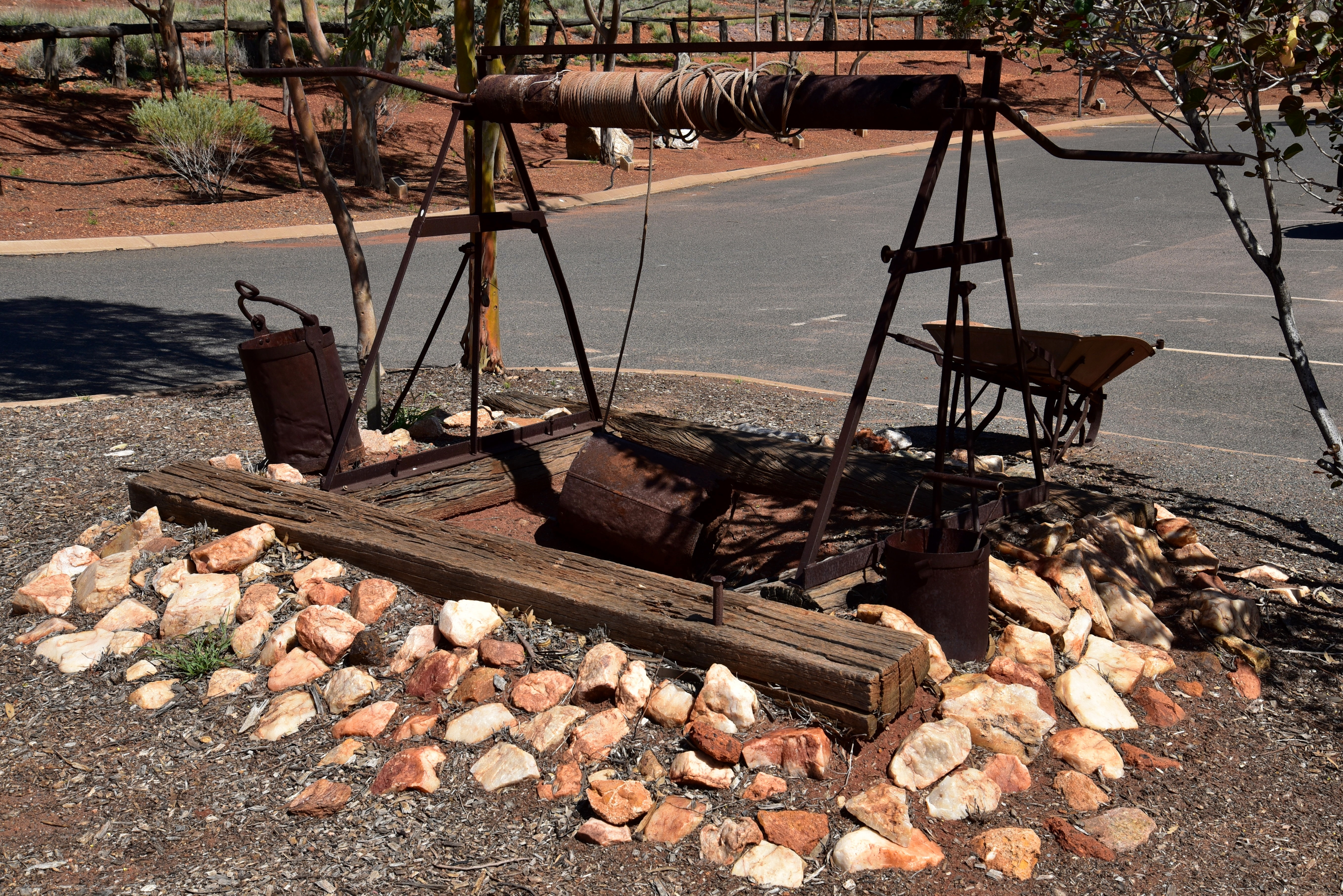 View of (what is probably a replica) small headframe adjacent to the St Barbara Leonora Operations office building, Gwalia, Western Australia